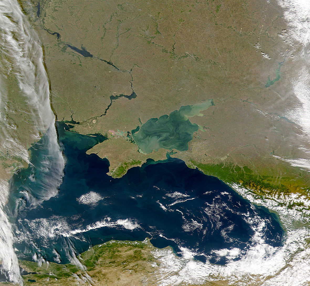 "NASA images generally are not copyrighted. You may use NASA imagery, video and audio material for educational or informational purposes, including photo collections, textbooks, public exhibits and Internet Web pages."]